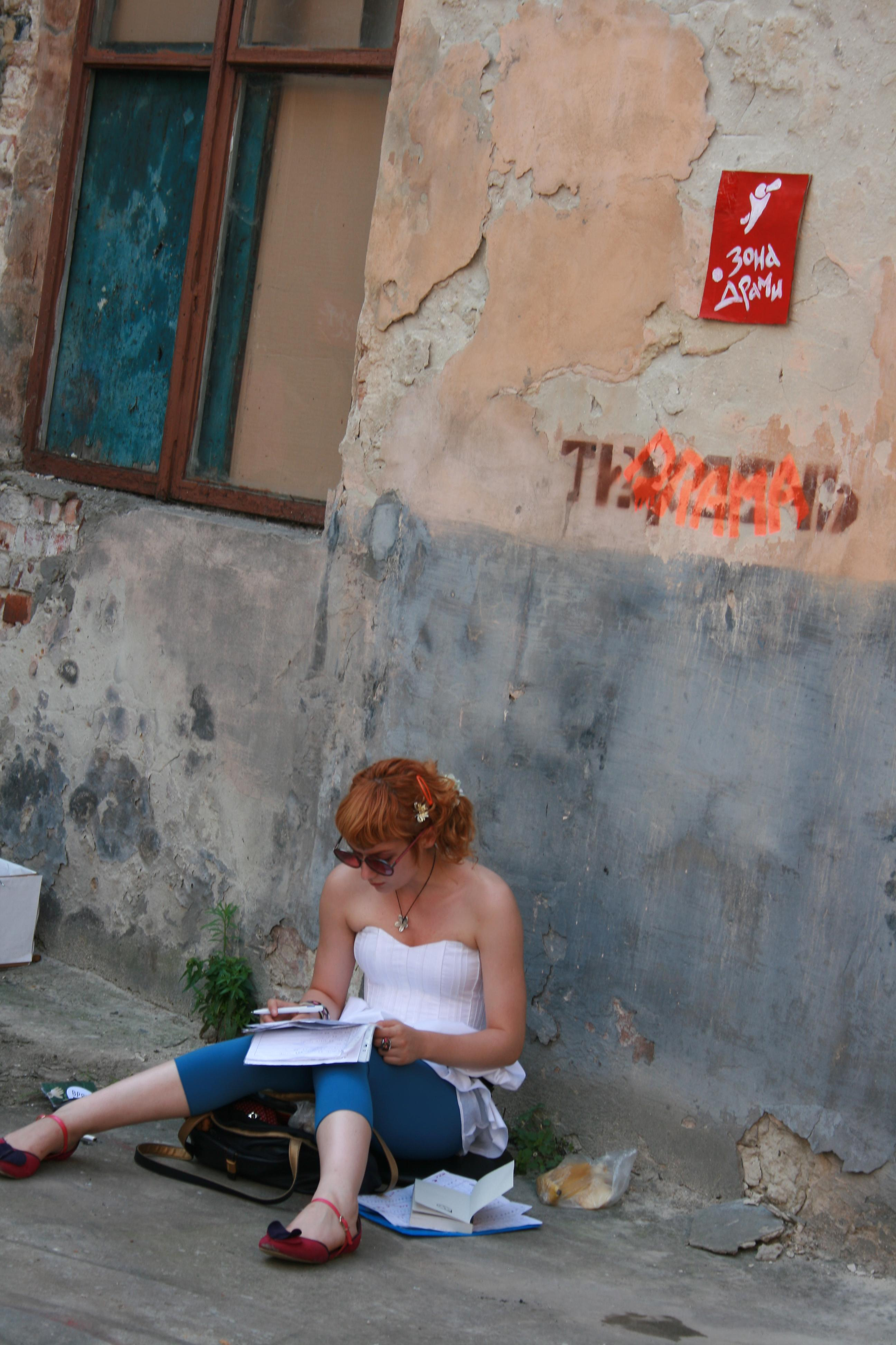 I New Drama Festival "Drama.UA". Lviv, 2010. Marysya Nikityuk - playwright and critic from Kyiv